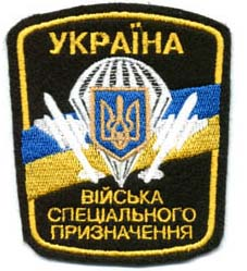 Non official Ukrainian SOF patch